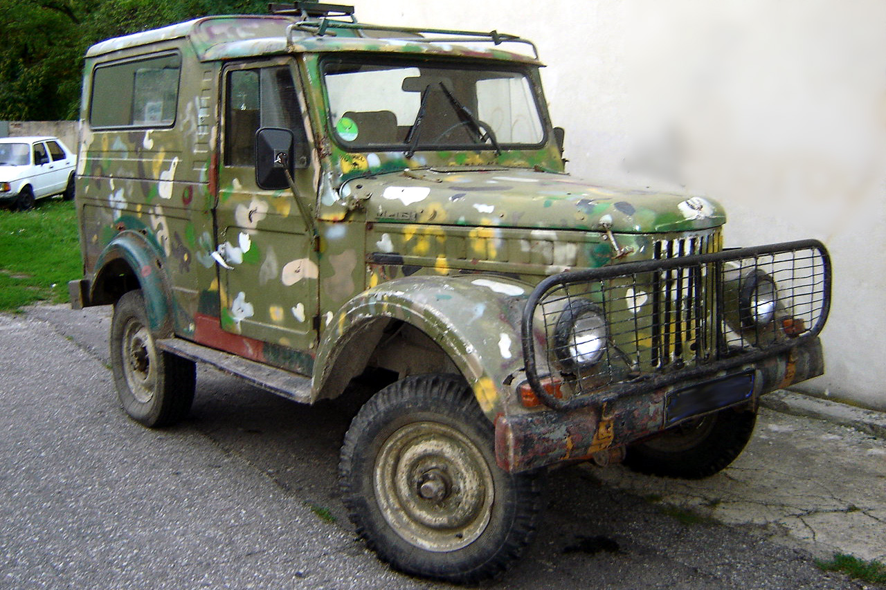 ARO M461